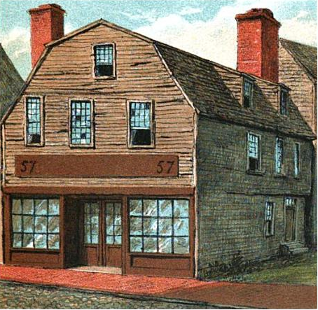 Thoreau House, Prince Street, Boston, Massachusetts